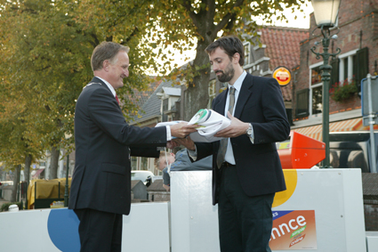 2008 Vintage Yachting Games Flag Transfer